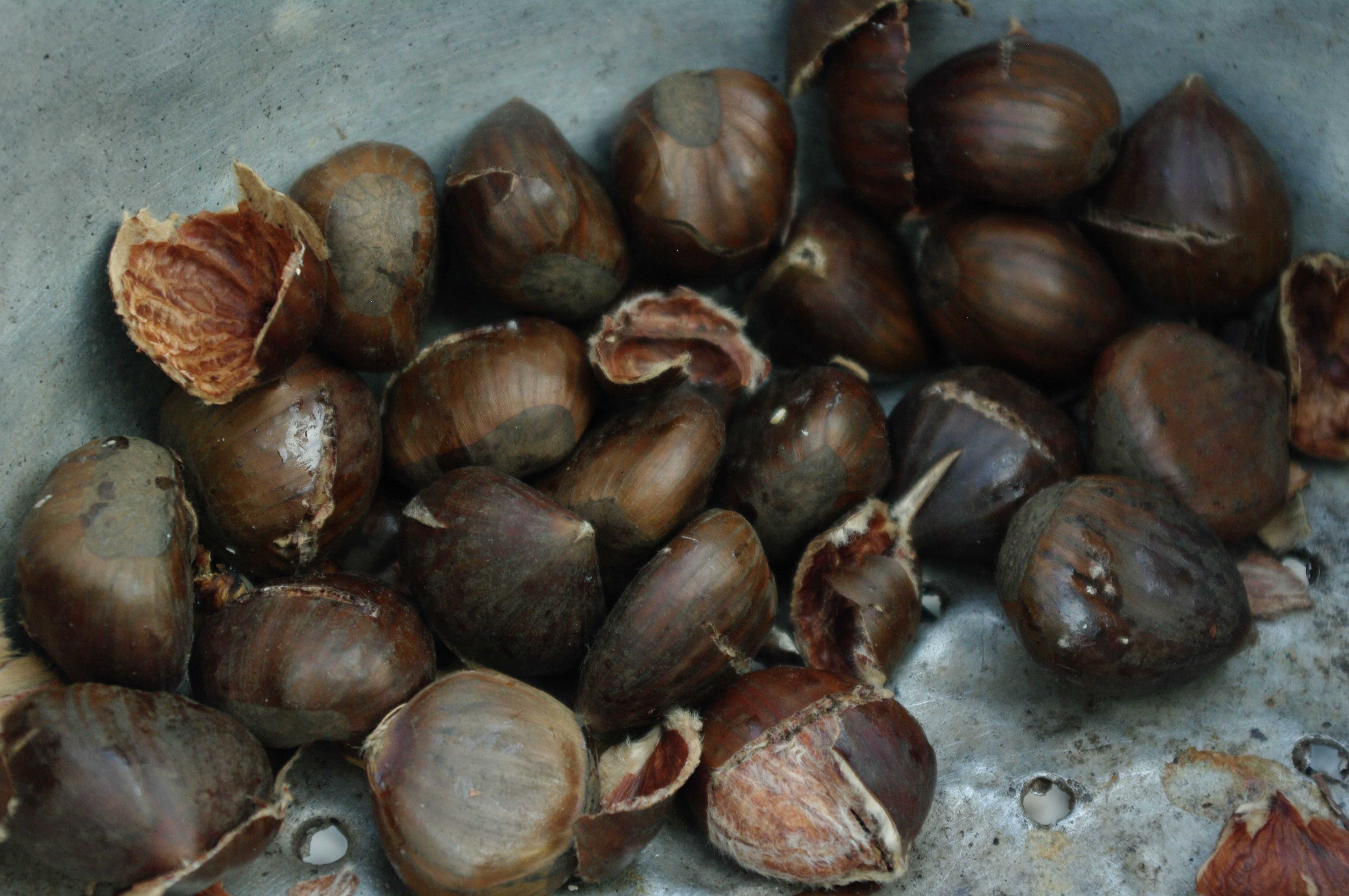 Roasted chestnuts